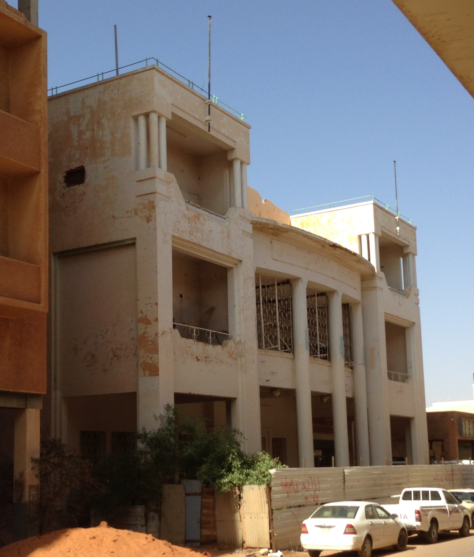 The building that housed the head-office of Gerasimos Contomichalos' trading company in Khartoum, Sudan, until its nationalisation in 1971, in Barlaman Avenue.